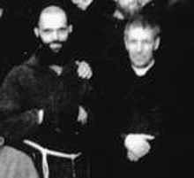 don baronio e padre guglielmo gattiani in primo piano.